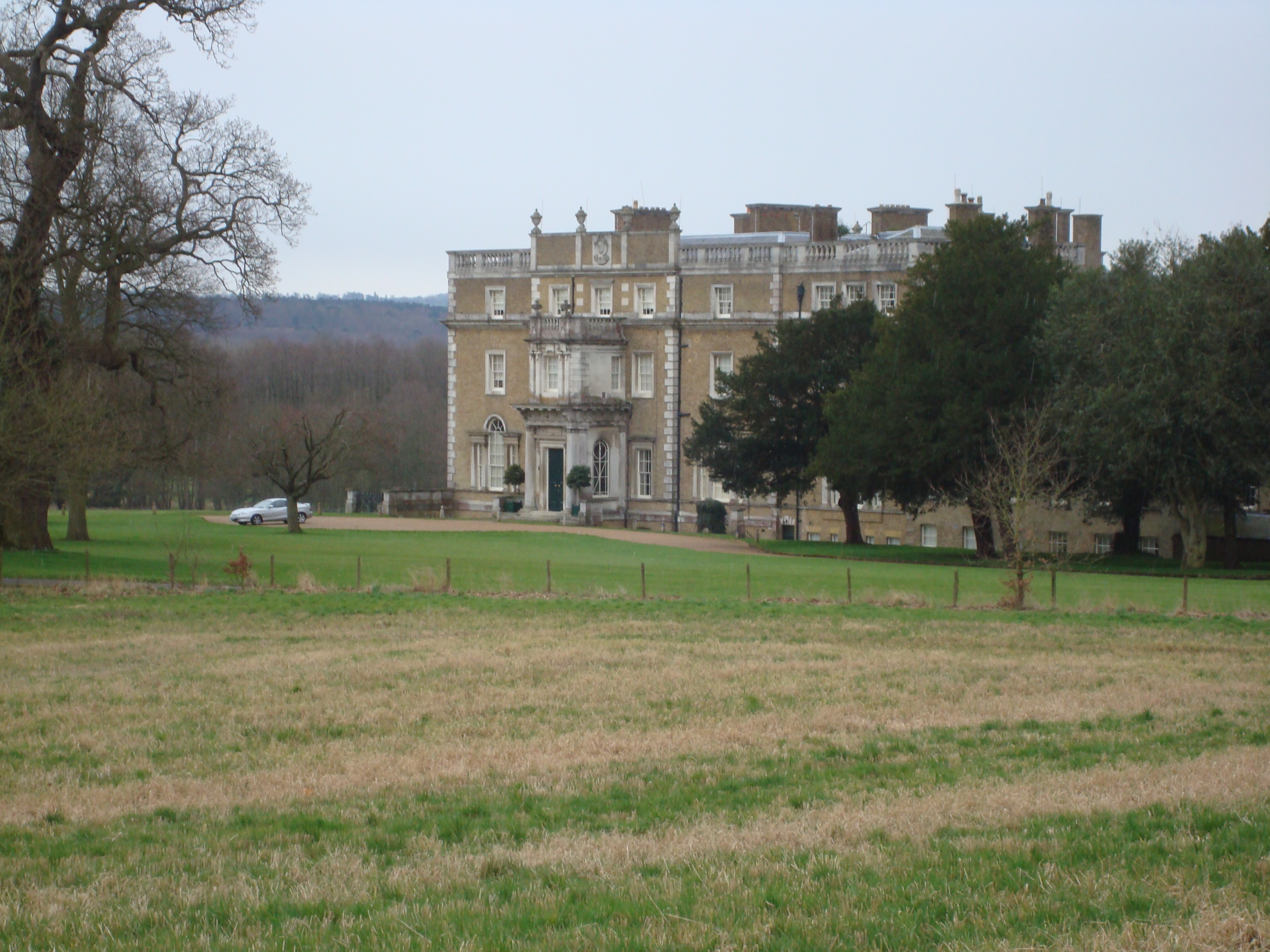 Peper Harow House. S Knights, my photo, March 2008